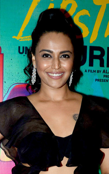 Swara Bhaskar at special screening of Lipstick Under My Burkha (02)